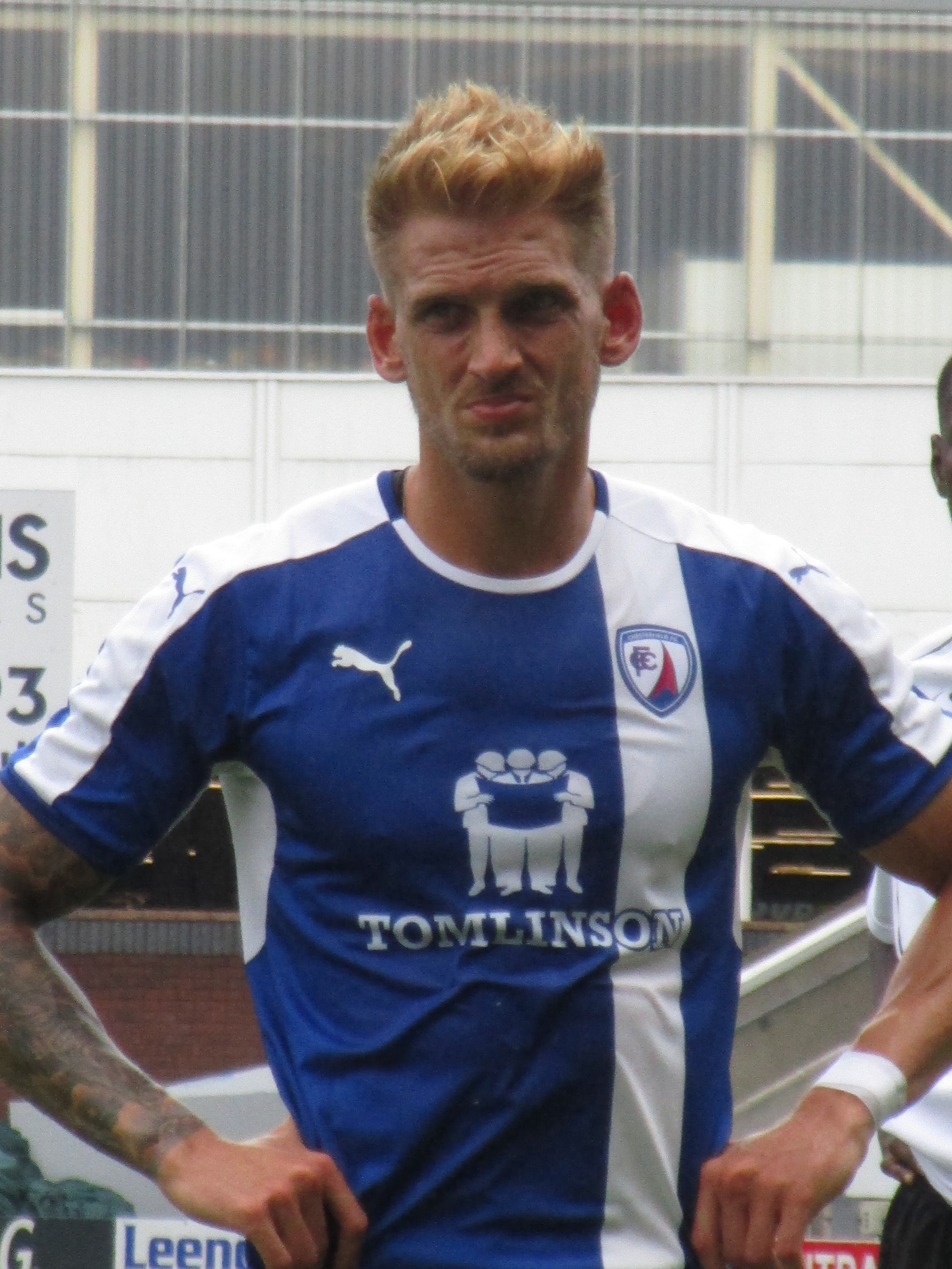 Dan Jones playing from Chesterfield in a pre-season friendly against Sheffield Wednesday - 16th July 2016.